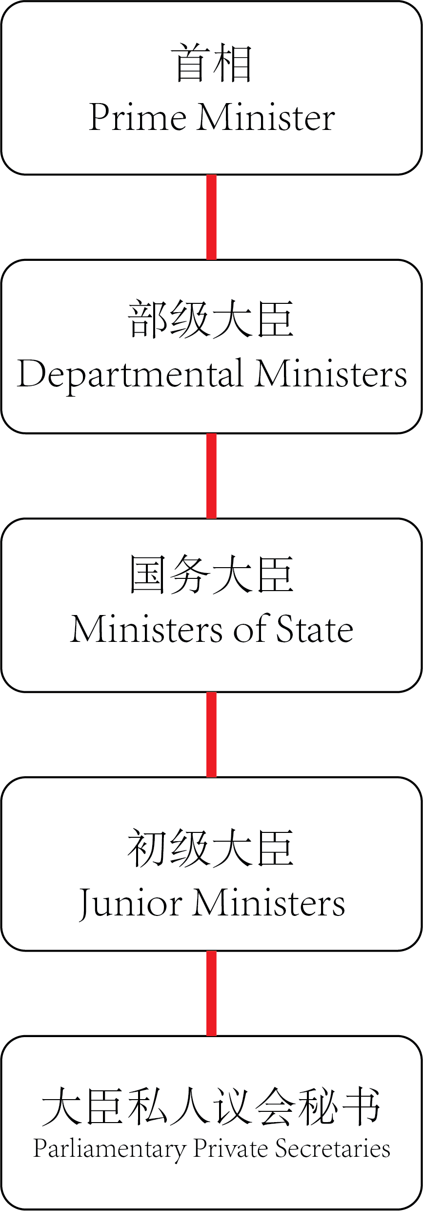 UK governmental minister structure